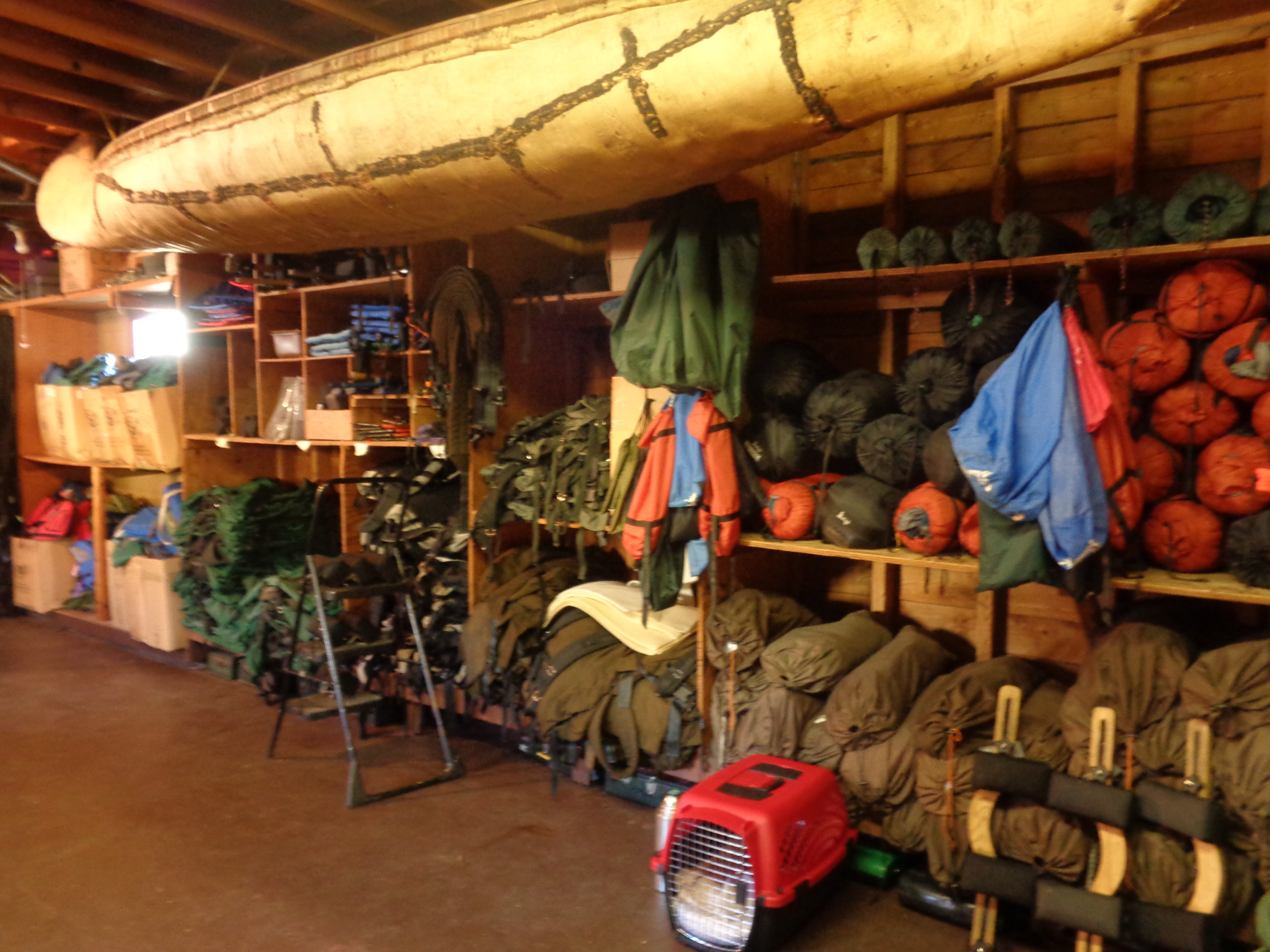 Canoe Country Outfitters headquarters on Sheridan St. in Ely MN, circa 2018